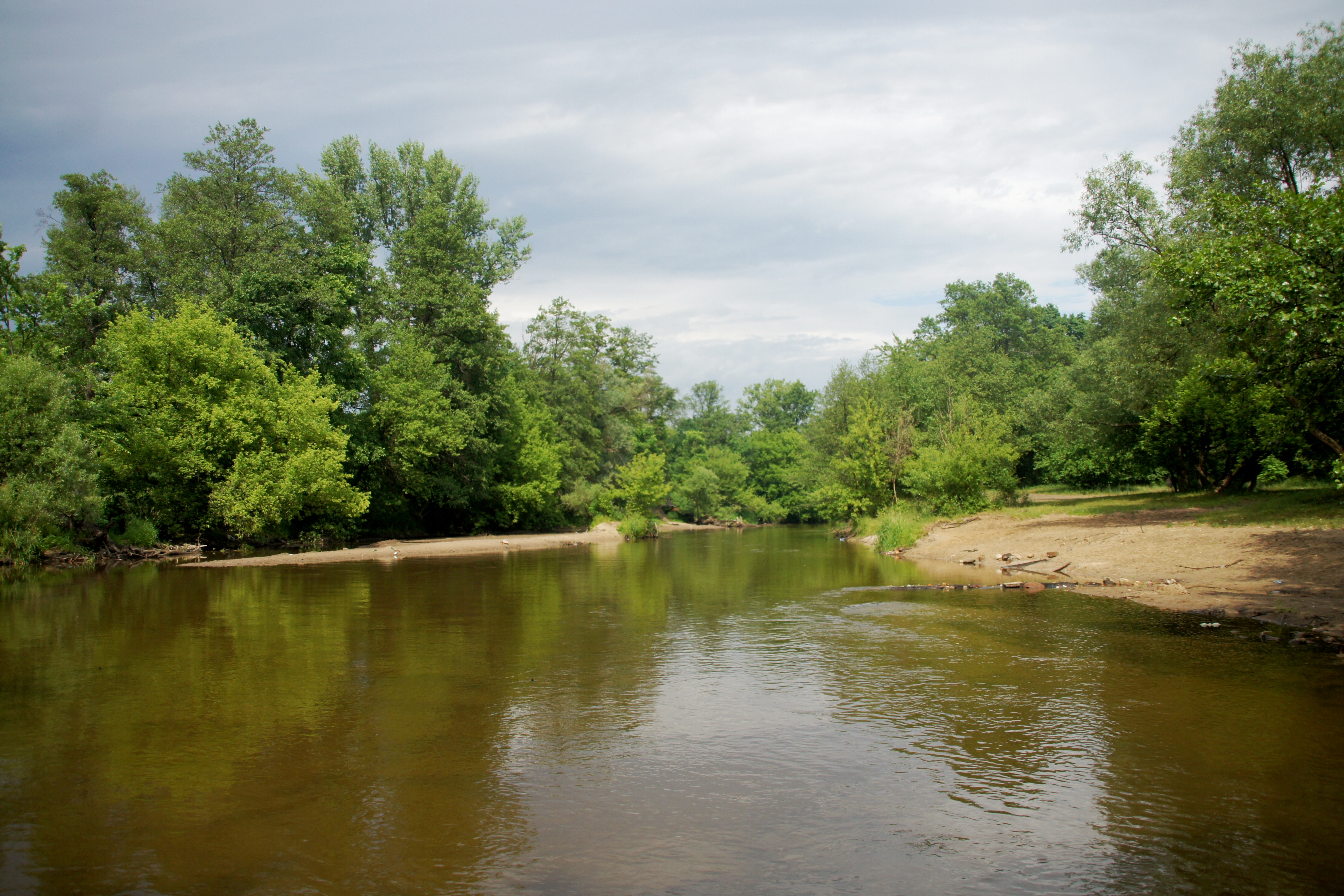 Świder river in Józefów